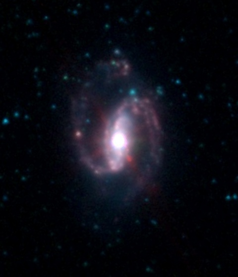 Image of the Crab Nebula in Infrared at 3.6 (blue), 4.x (green) and 8.0 (red) µm. The image has been made by myself (Médéric Boquien) from the public image archive of the Spitzer Space Telescope (courtesy NASA/JPL-Caltech). Color rendering is done by by Aladin-software (2000A&AS..143...33B.)